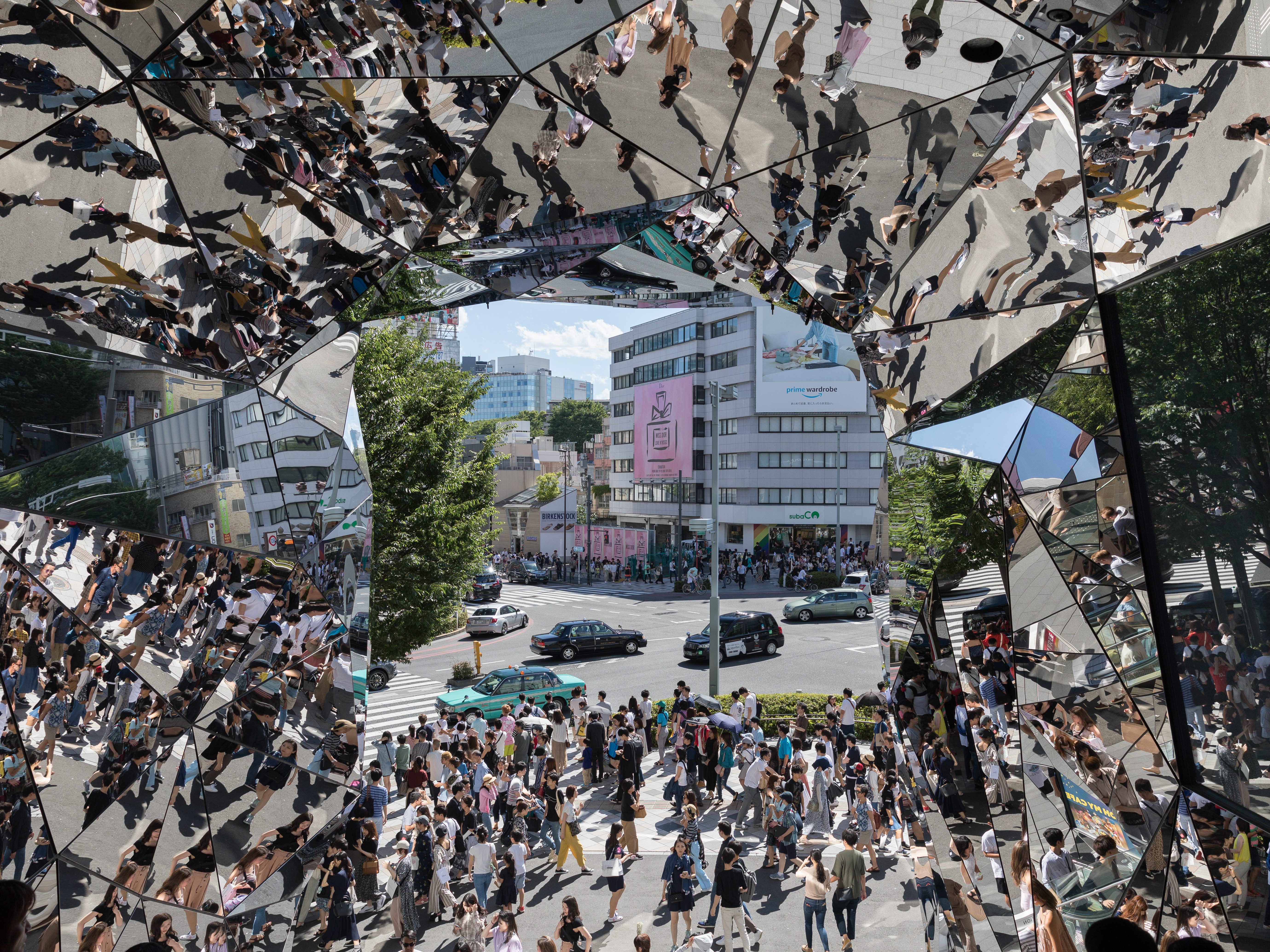 Street crowd reflecting in the polyhedral mirrors of Tokyu Plaza Omotesando, Harajuku station, Tokyo, Japan, a sunny Sunday afternoon. Designed by architect Hiroshi Nakamura.